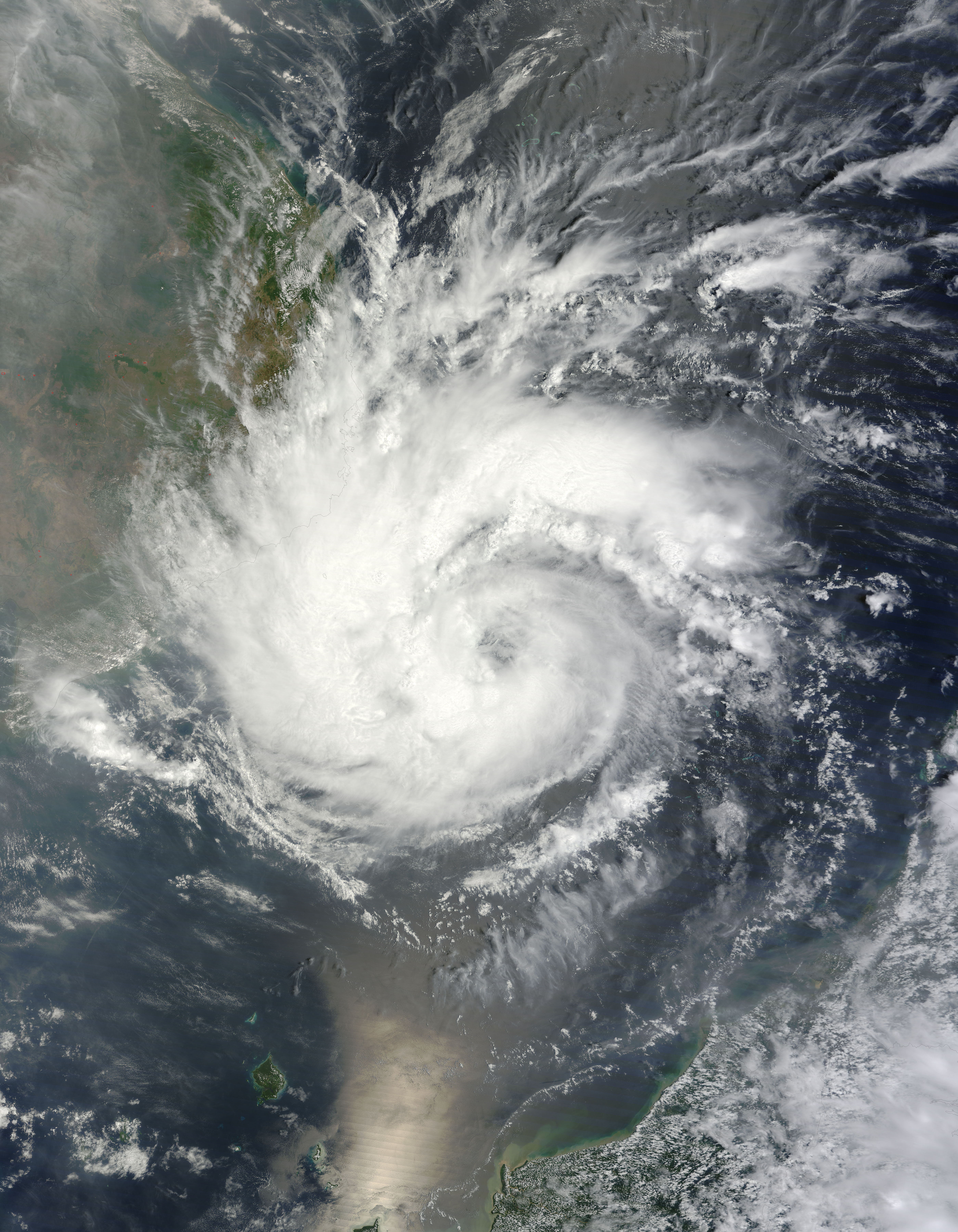 Tropical Storm Pakhar approaching Vietnam on March 30, 2012.